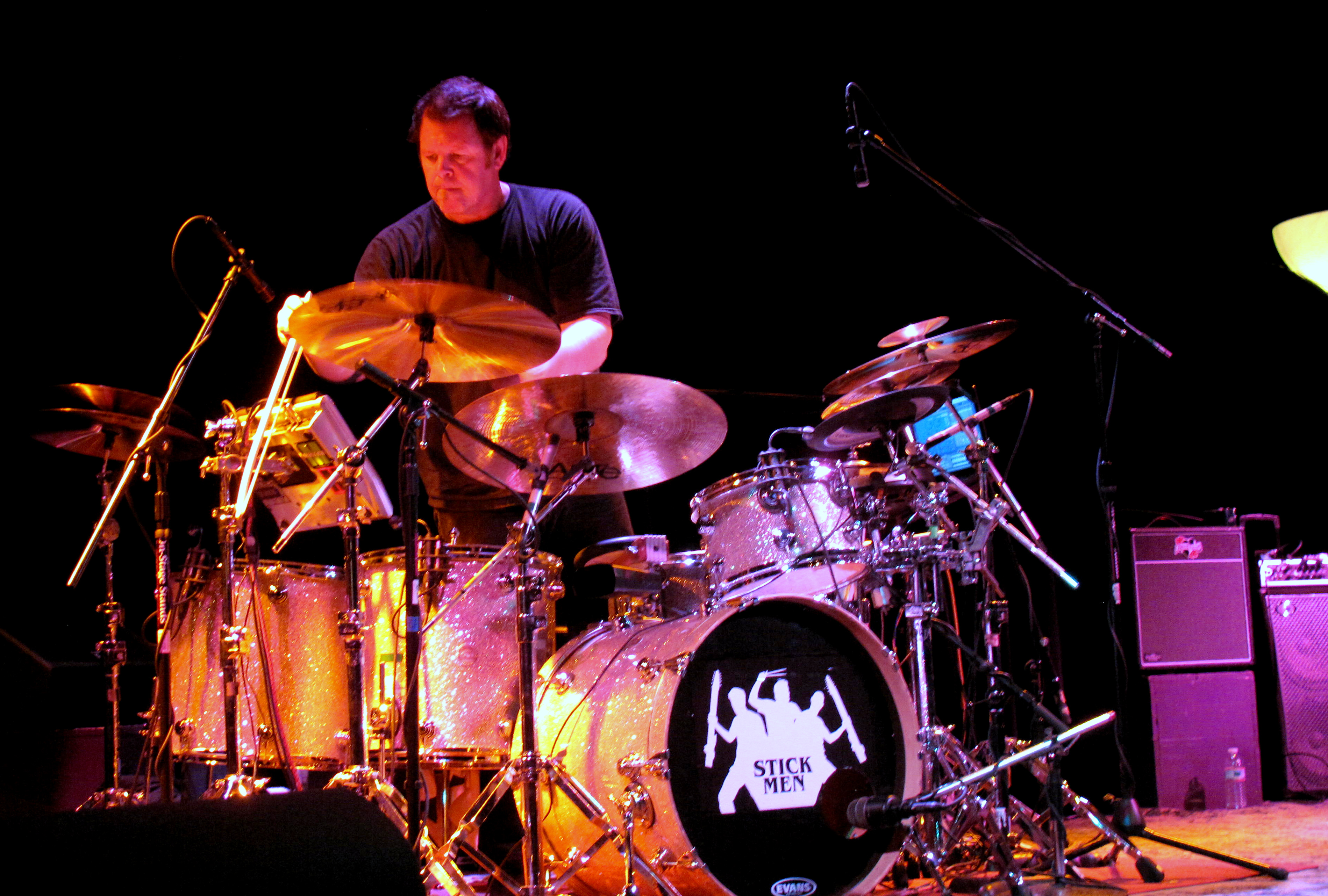 'STICK MEN' featuring Pat Mastelotto (Pictured) played with Tony Levin and Michael Bernier in Minneapolis, Minnesota, May 16th, 2010.